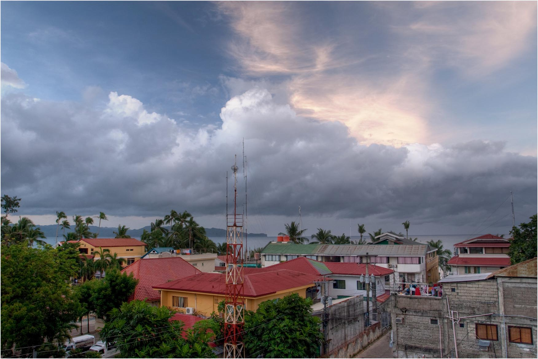 Boracay Station One at sunrise